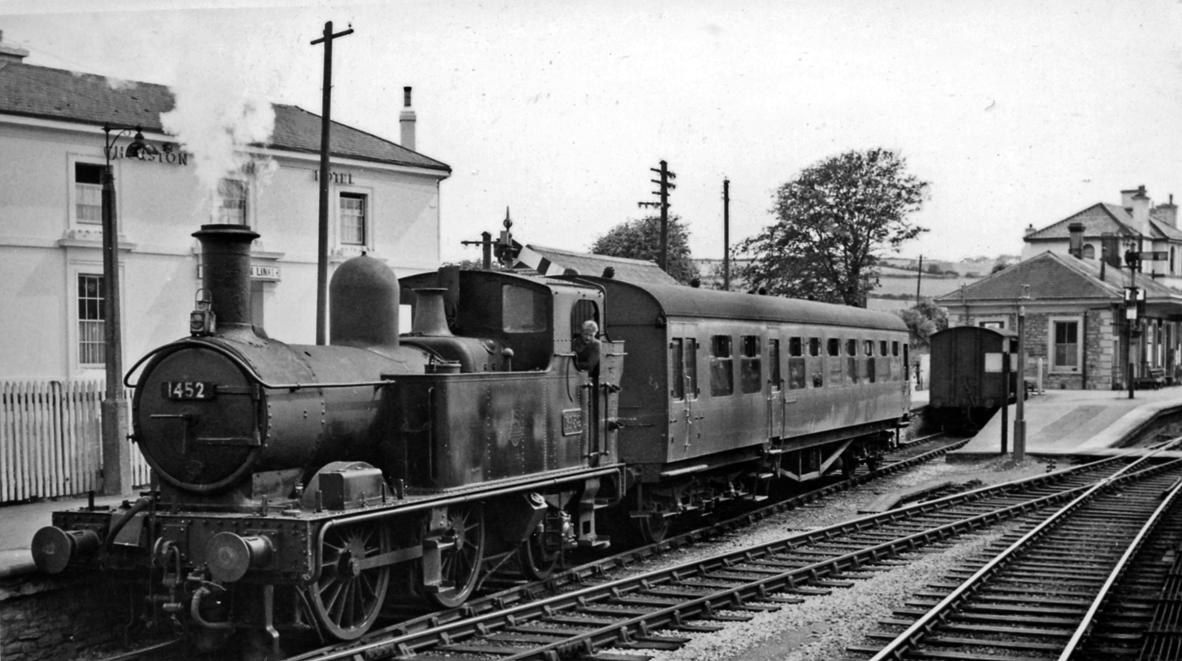 Auto-train for Brixham leaving Churston. View SW, towards Kingswear: ex-GW Newton Abbot - Paignton - Kingswear line, which was closed by BR on 30/10/72 but was taken over in 12/72 by the Dart Valley (later South Devon) Heritage Railway. The Brixham branch was closed on 13/5/63. This Brixham auto-train is headed by Collett 0-4-2T No. 1452 (built 7/35 as No. 4852, renumbered 11/46, withdrawn 11/64).